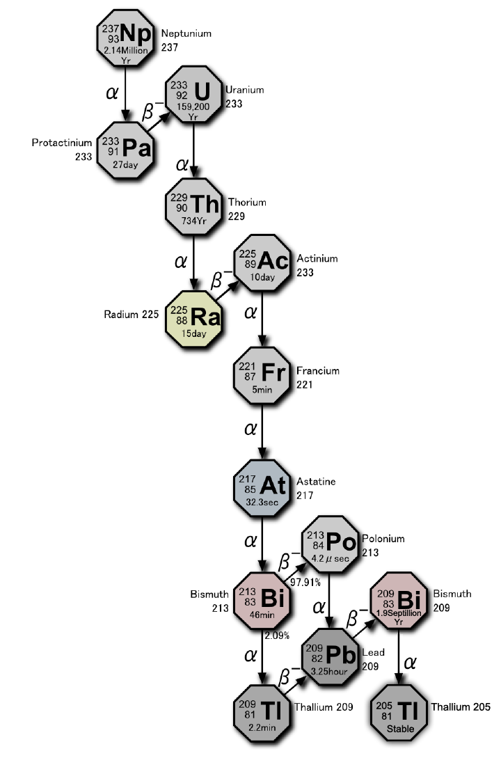 Decay chain 4n+1, Neptunium series